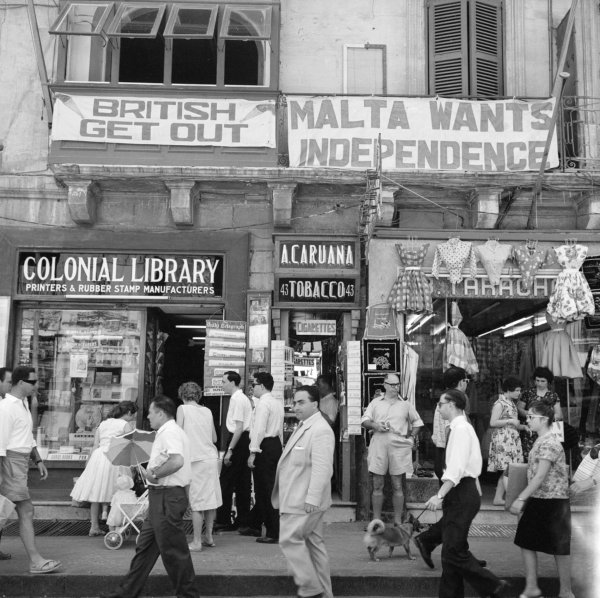 Reproduction ID: P97877 Maker: Marine Photo Service Date: circa 1960-1964 Materials: Cellulose acetate negative This photograph is featured in Waterline, a new photographic exhibition revealing the joys and trials of the heyday of cruising. It's on at the National Maritime Museum until October 2011